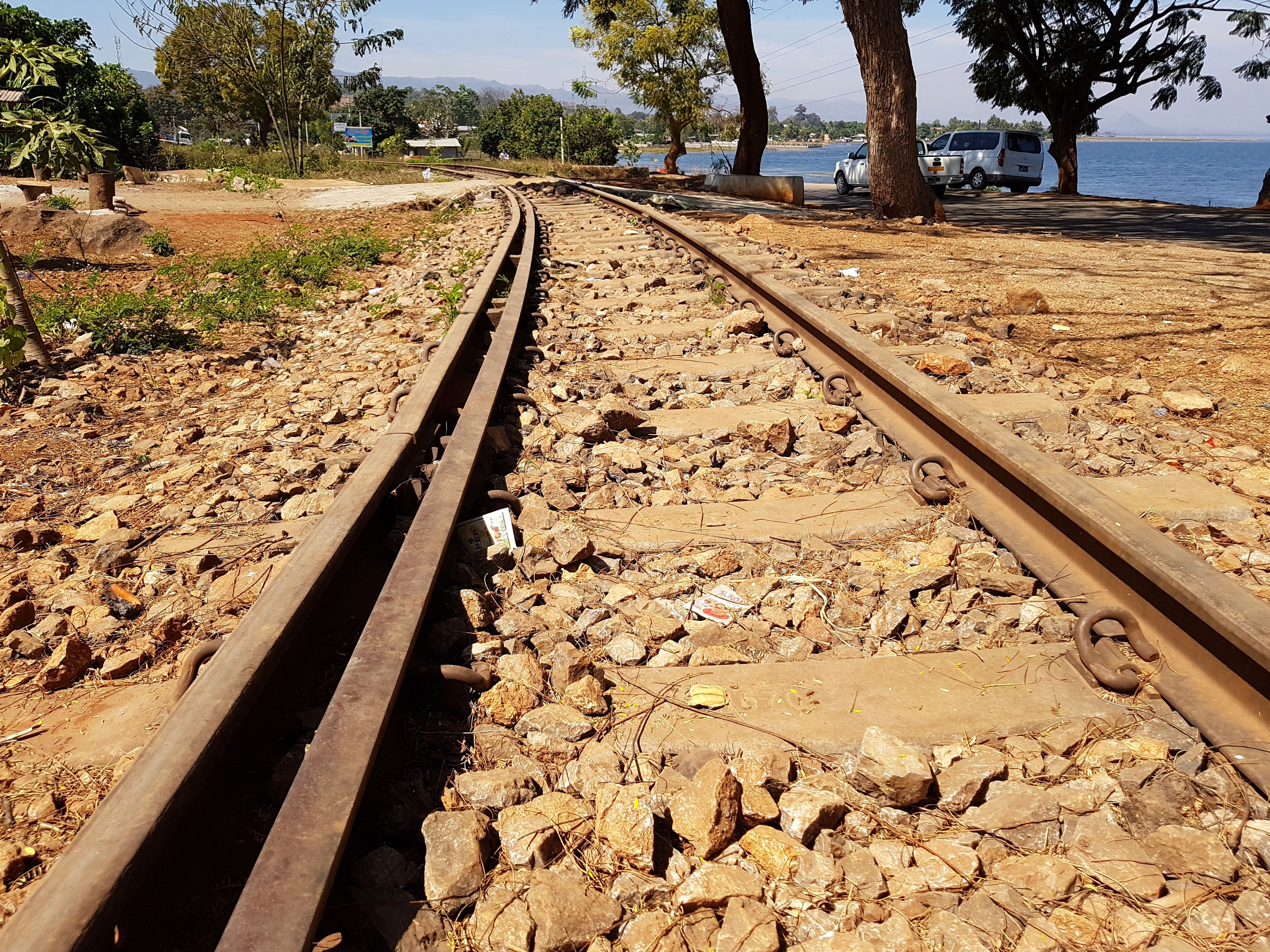 rail track with guard rail in Myanmar, near Pekon .